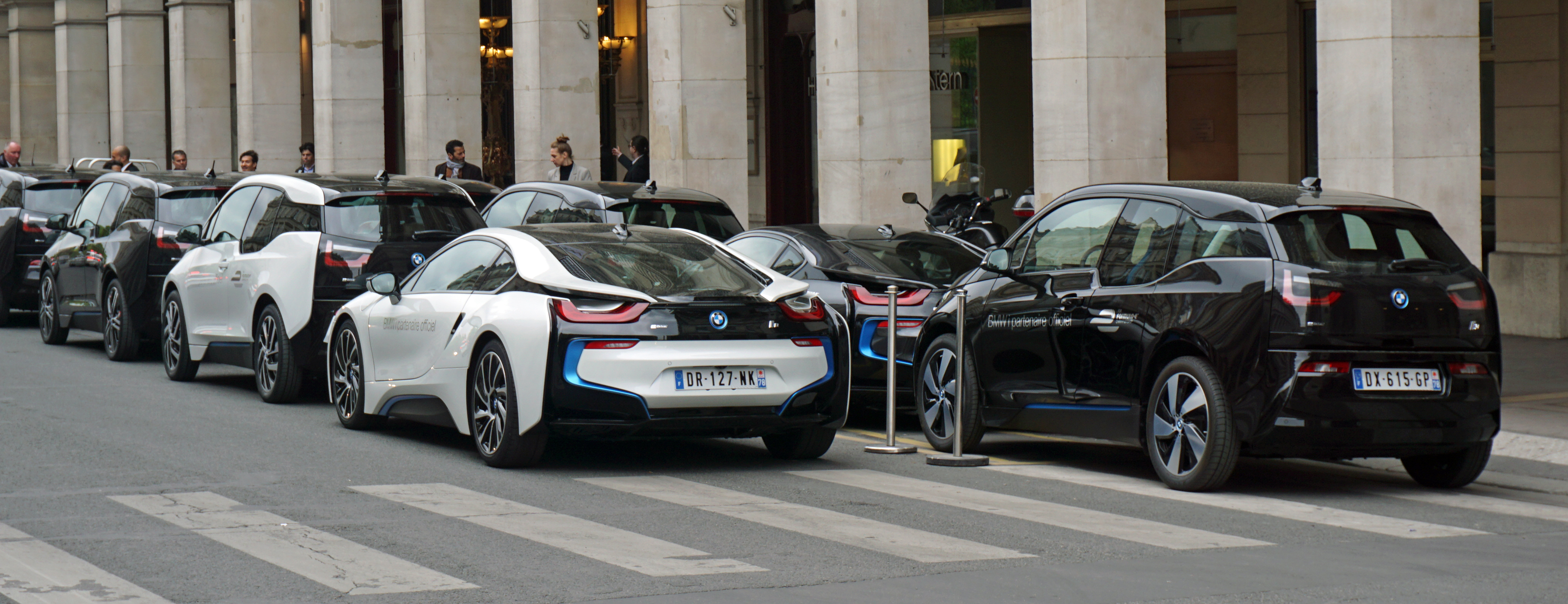 Fleet of BMW i plug-in vehicles at Paris Formula E 2016, France